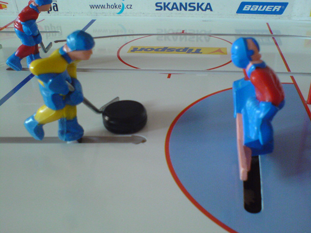 Comparison of puck and player size.